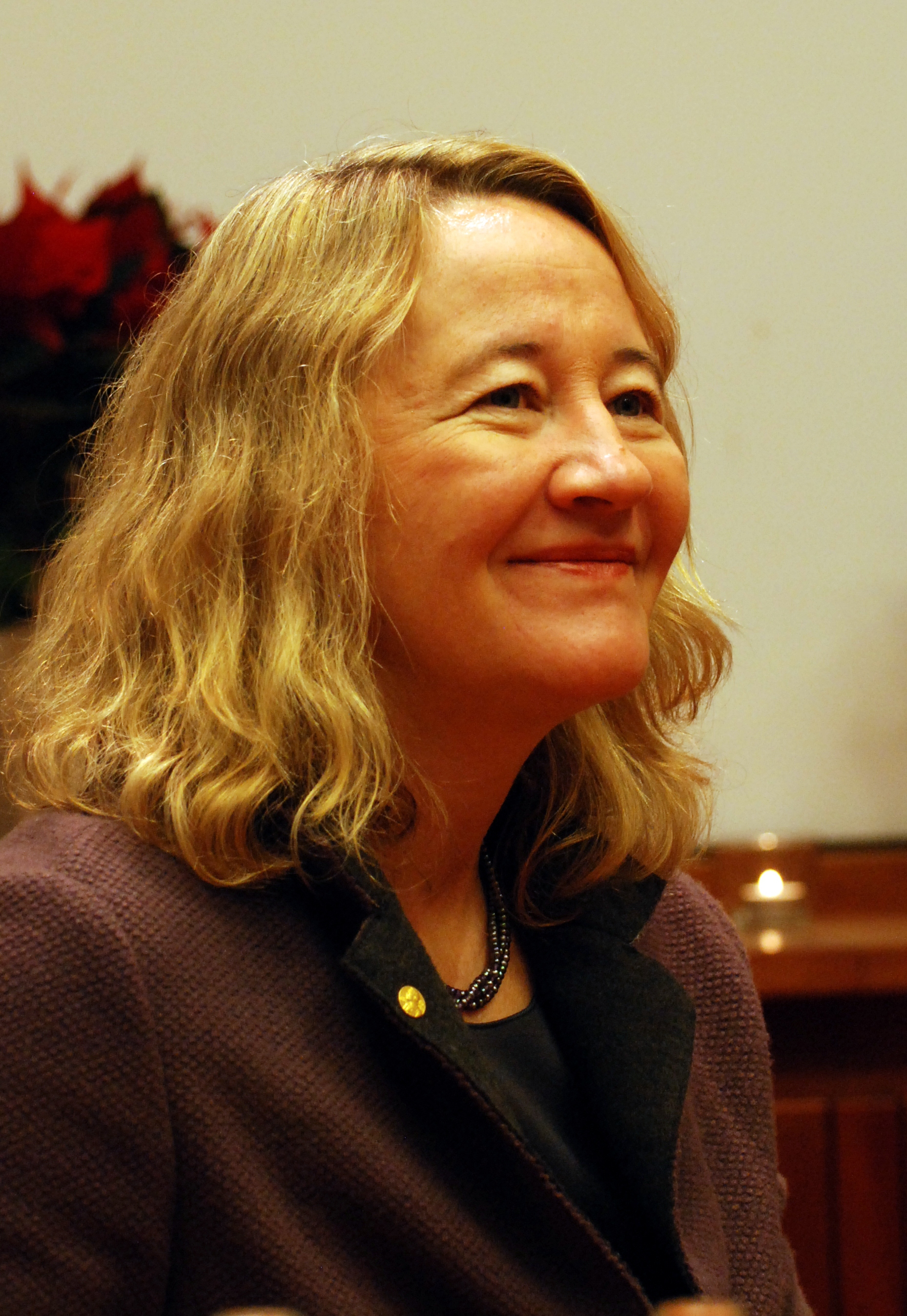 Nobel Prize in Physiology or Medicine 2009, press conference with the laureates: Carol W. Greider.